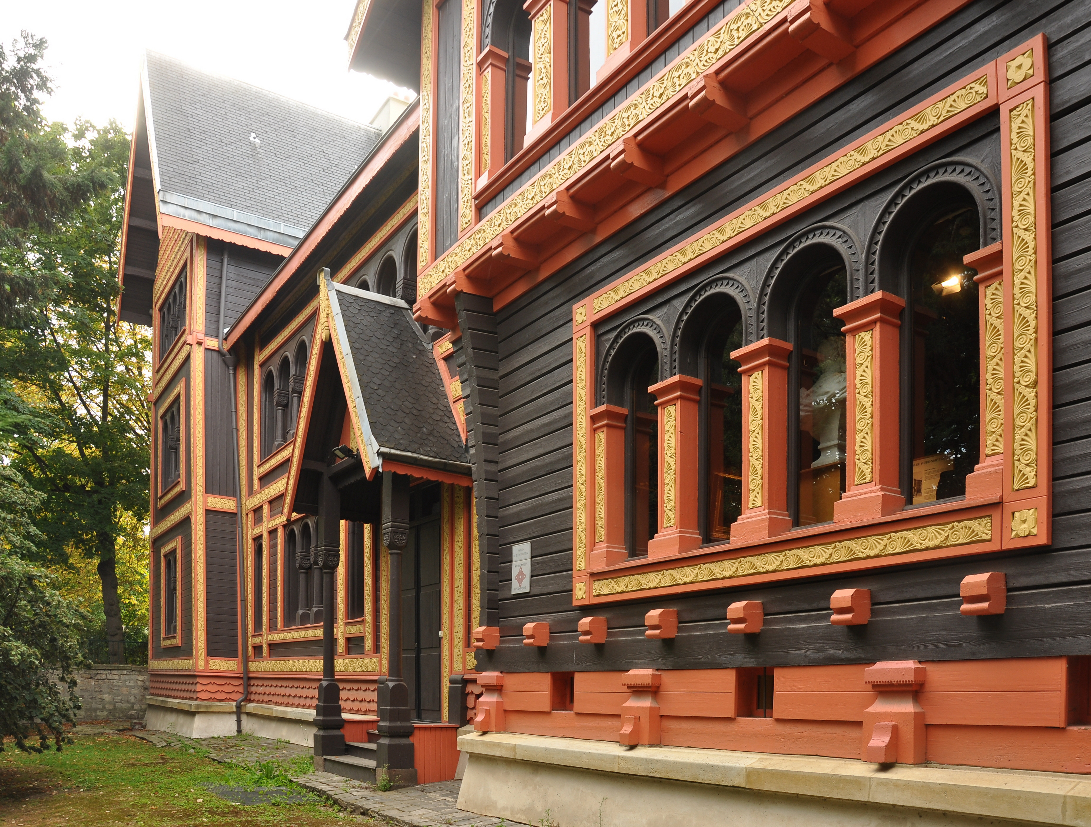 Pavilion of Sweden and Norway origin from the World's Fair of 1878 actually located at Courbevoie, Hauts-de-Seine department of France.